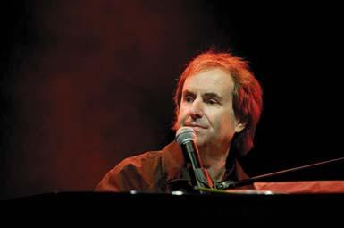 I took this picture of Chris de Burgh in concert in Cork city.